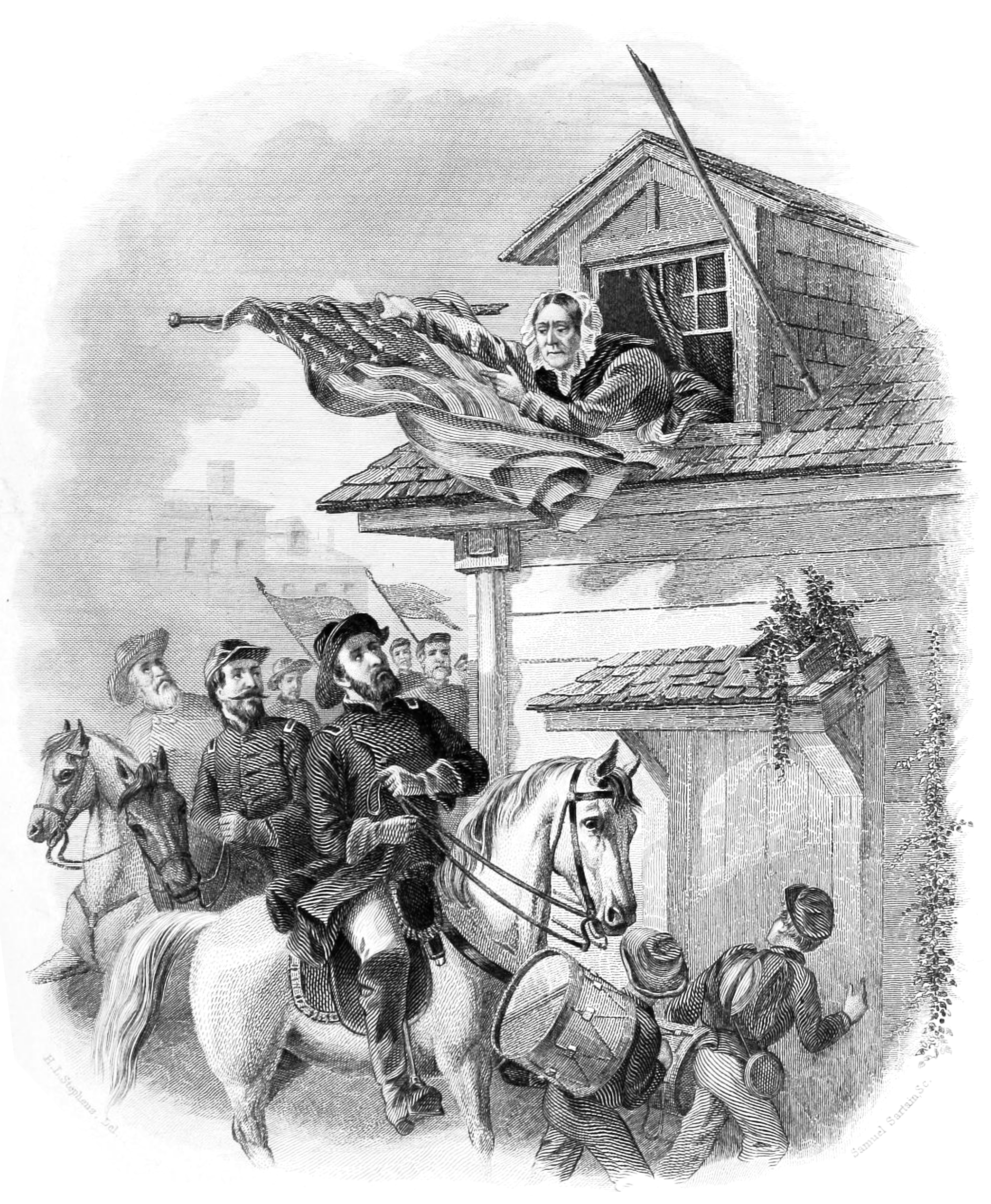 Barbara Fritchie 1766-1862 in US Civil War. Caption reads: "Shoot, if you must, this old gray head, but spare your country's flag, she said."